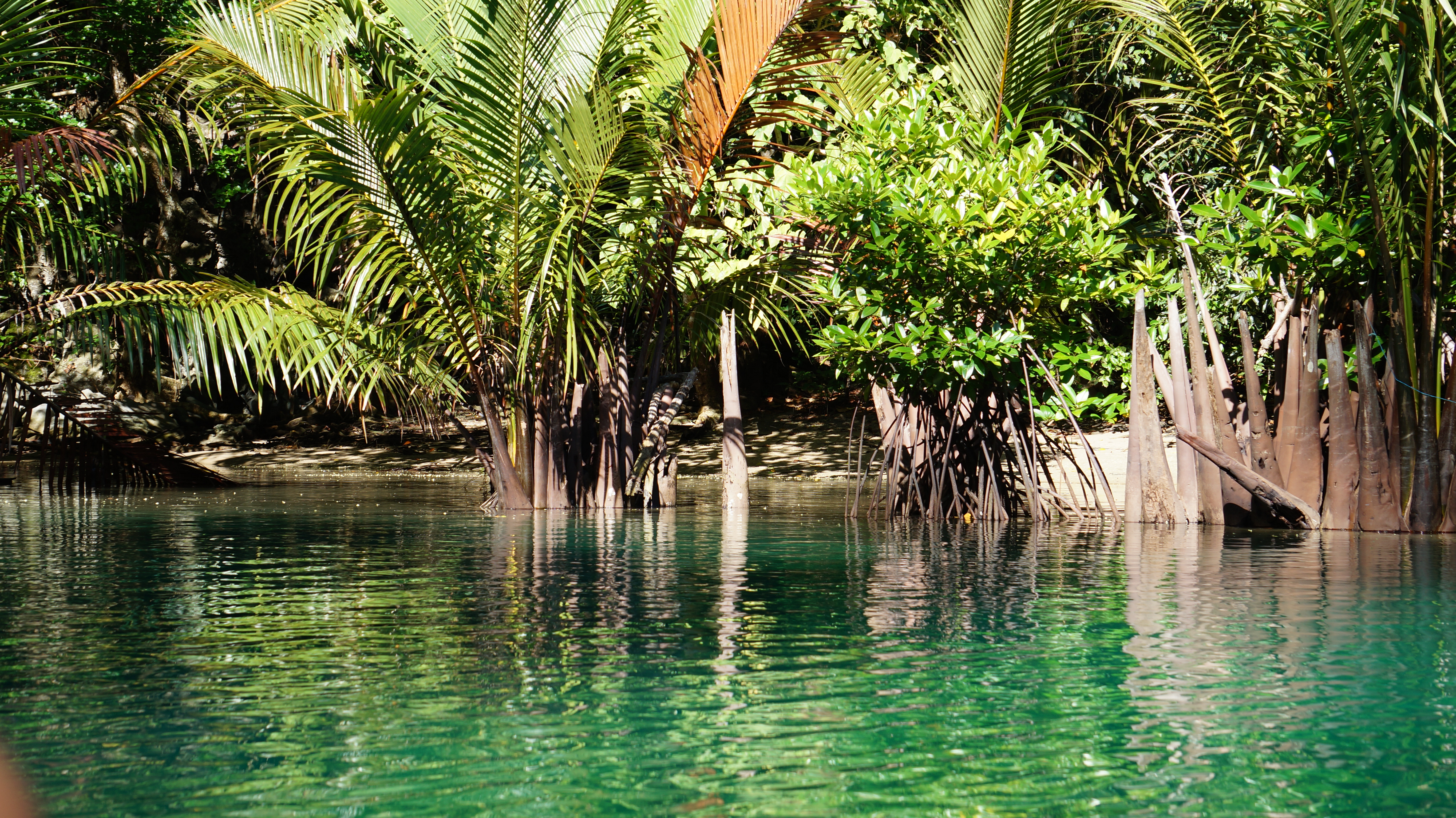 It's an amazing place...we're very fortunate to have it here in the Philippines, and more so, because we were able to see and explore it.